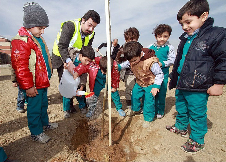 Tree planting by people of Mashhad in Arbor Day.